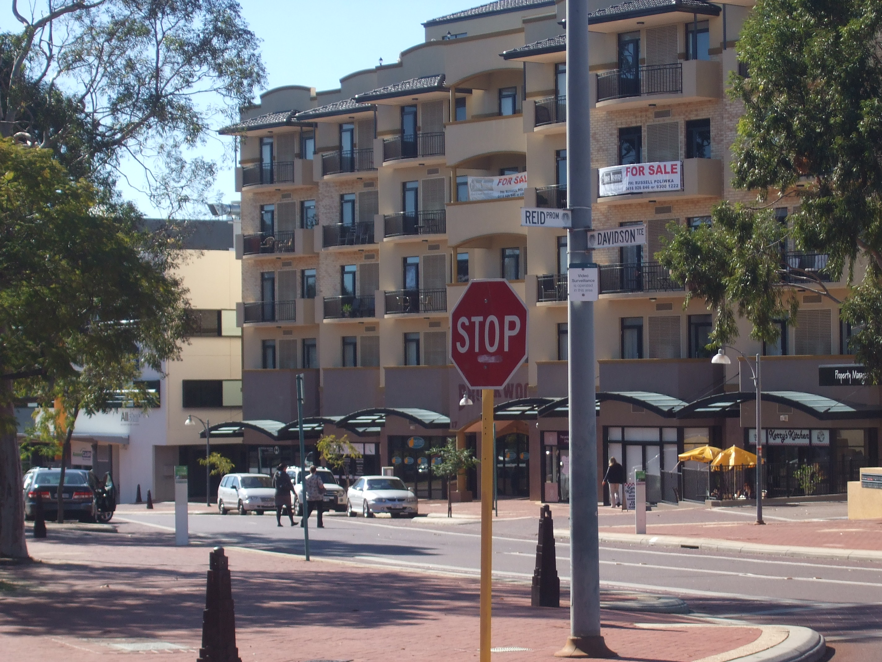 Corner of Davidson Terrace and Reid Promenade, Joondalup city centre, WA.